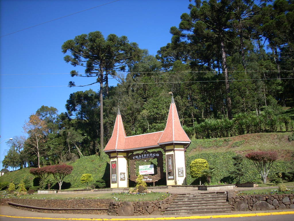 Monument Maria Frey in Fraiburgo Santa Catarina Brasil